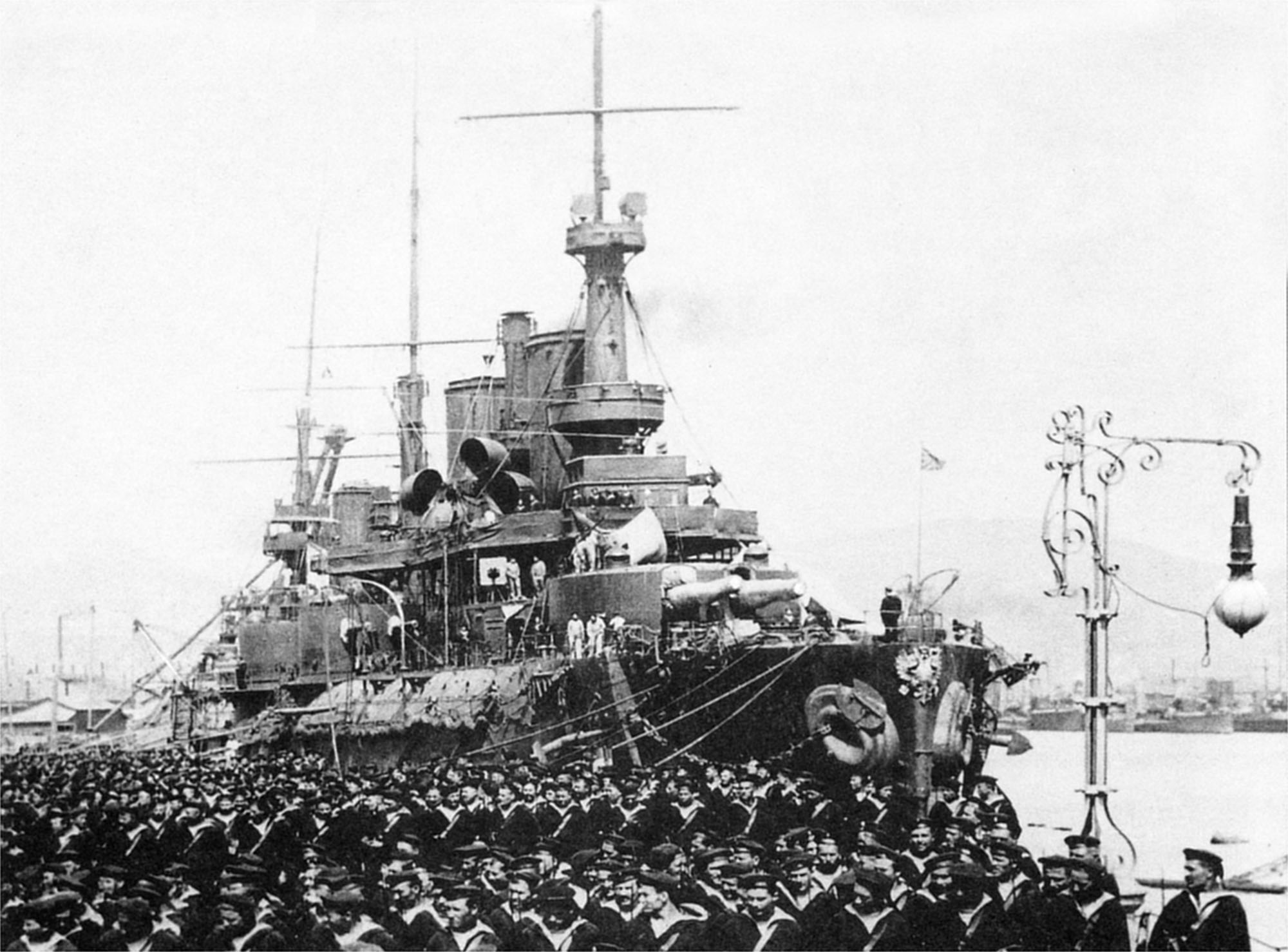 The Imperial Russian battleship Sevastopol in Port-Arthur, 5 Mai 1904.